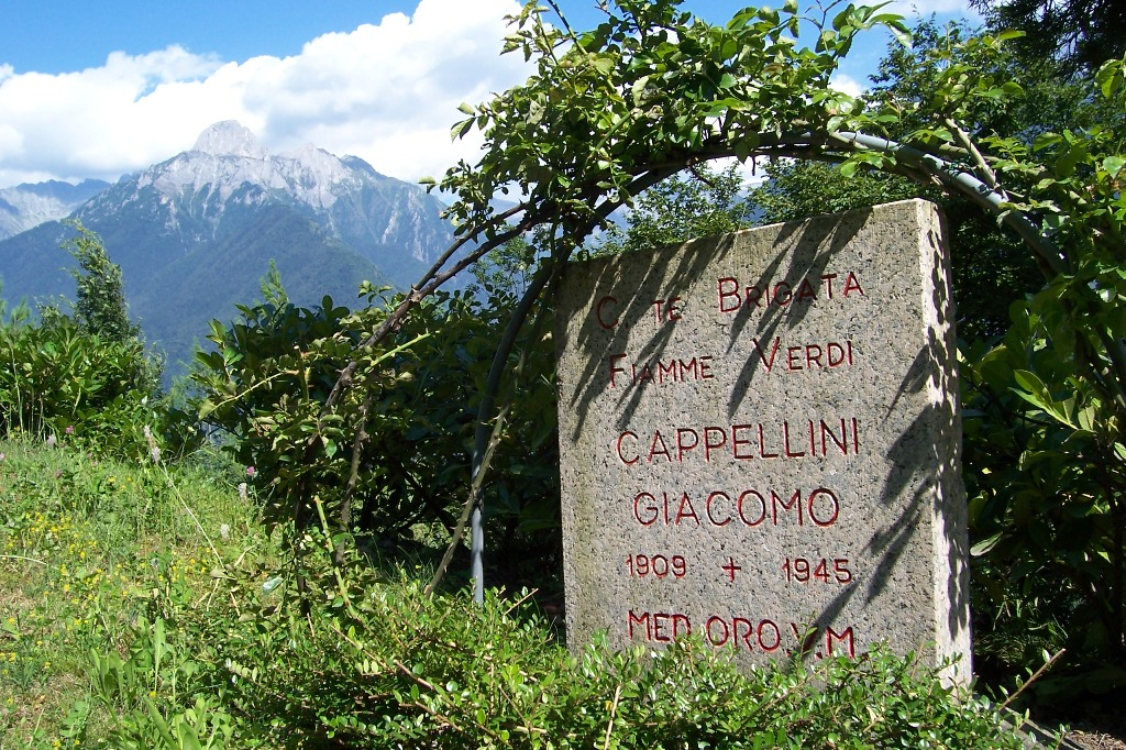 Lapis Giacomo Cappellini, Cerveno, Val Camonica